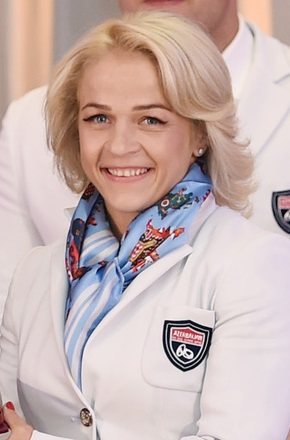 Ilham Aliyev met with athletes who competed in 31st Summer Olympic Games (Ilham Aliyev and Mariya Stadnik)